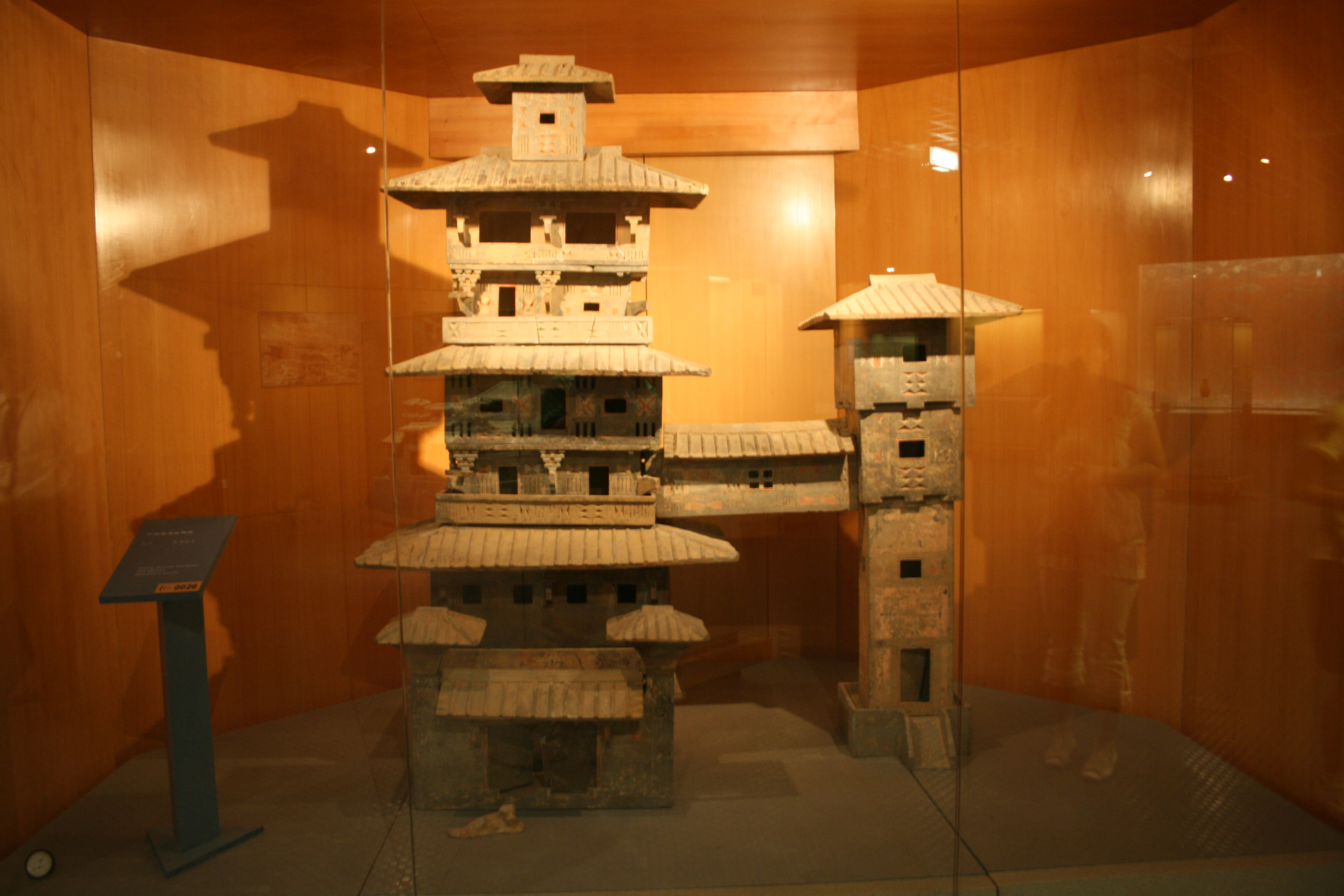 A Chinese mid-Eastern-Han Dynasty (25–220 CE) ceramic architectural model of a fortified multistory manor house with a covered bridge extended to a smaller watchtower. This model was excavated by archaeologists in 1993 from an Eastern-Han tomb at Jiazuo, Henan Province, China. The main building is 192 cm tall, and has a courtyard with gate-towers, an exterior stairway leading from the courtyard to the front balcony of the first level, and four sets of rooftops. This information is taken from: Guo, Qinghua. (2005). Chinese Architecture and Planning: Ideas, Methods, and Techniques. Stuttgart and London: Edition Axel Menges. ISBN 3932565541. This artifact is now located in the Henan Provincial Museum, Zhengzhou, China; from collection posted at by Dr. Gary L. Todd, Professor of History, Sias International University, Xinzheng, China.